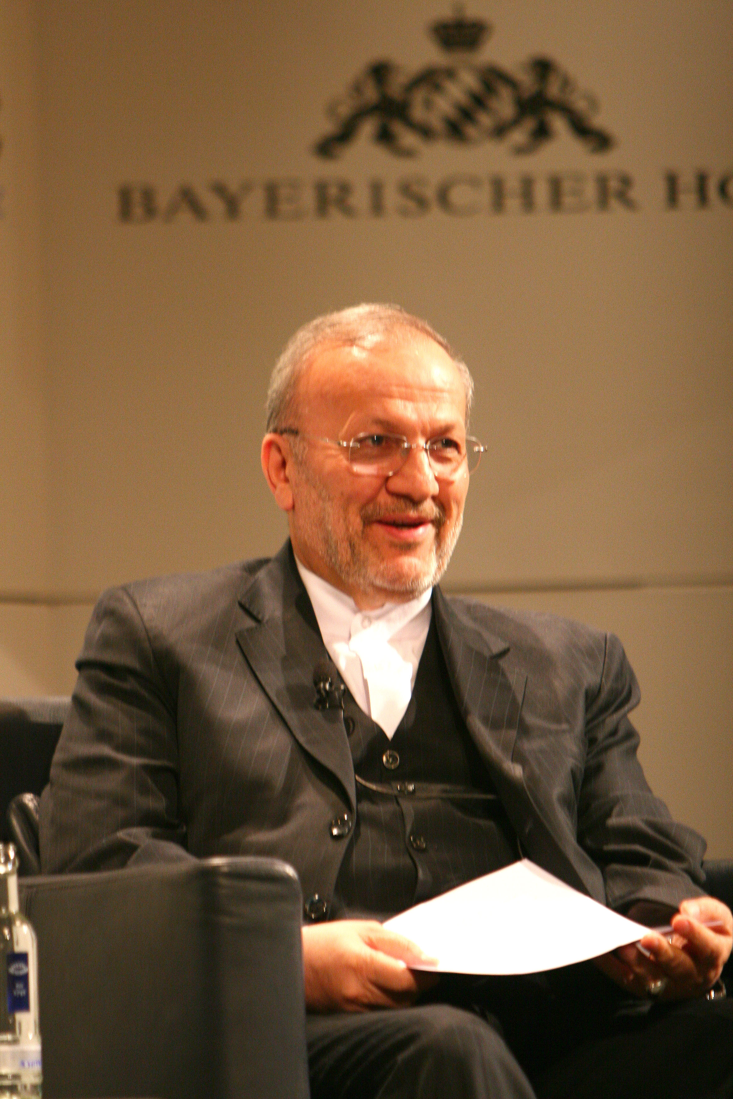 46th Munich Security Conference 2010: Manouchehr Mottaki, Minister of Foreign affairs, Iran.